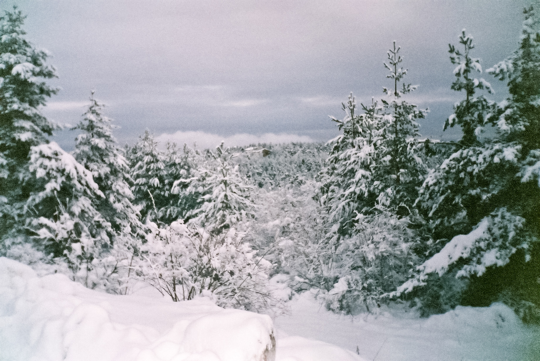 Locality Ovcharski polyani (Shepherd's meadows) in Rhodopes mountain, Bulgaria